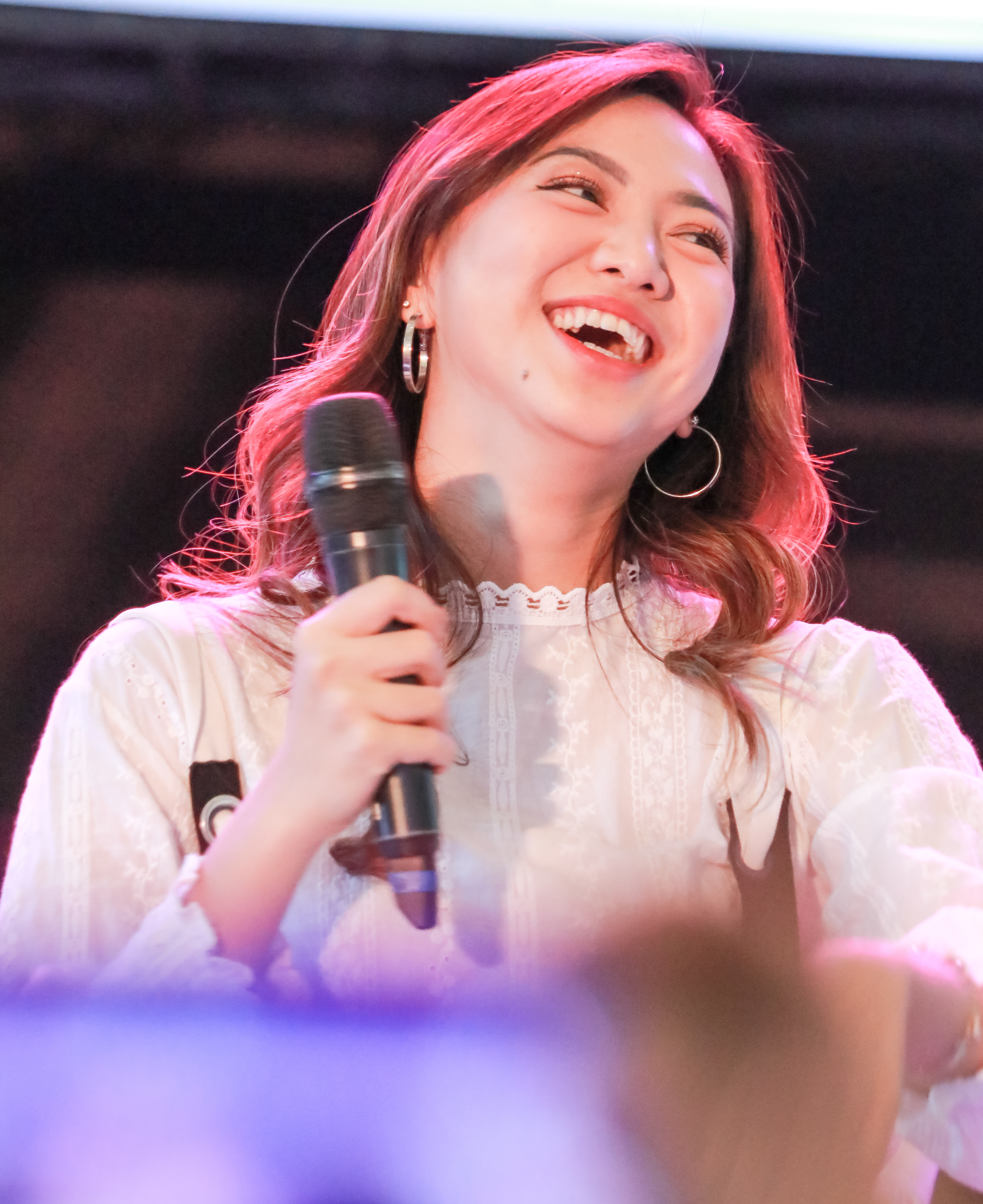 Shania Junianatha on 20 October 2019